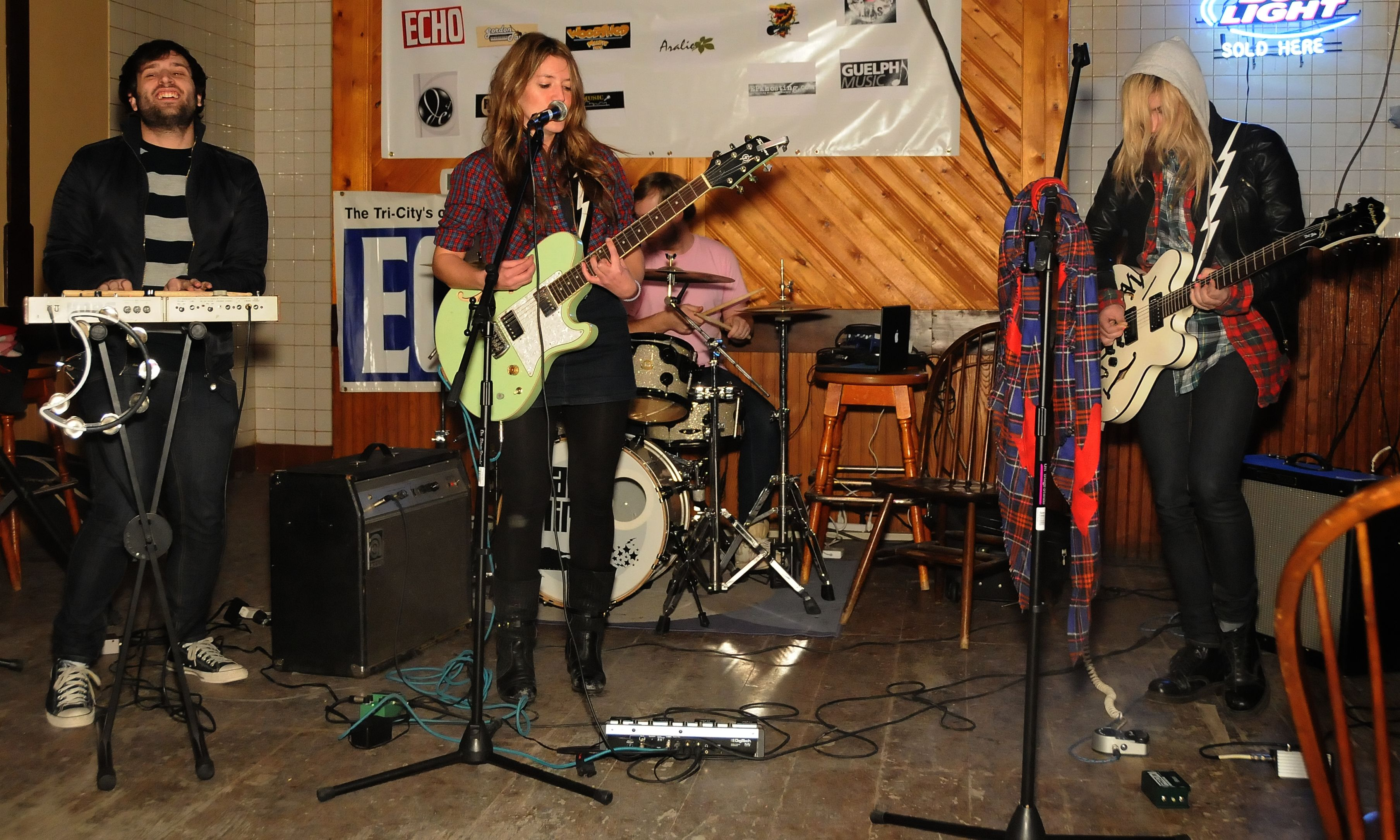 Bad Flirt